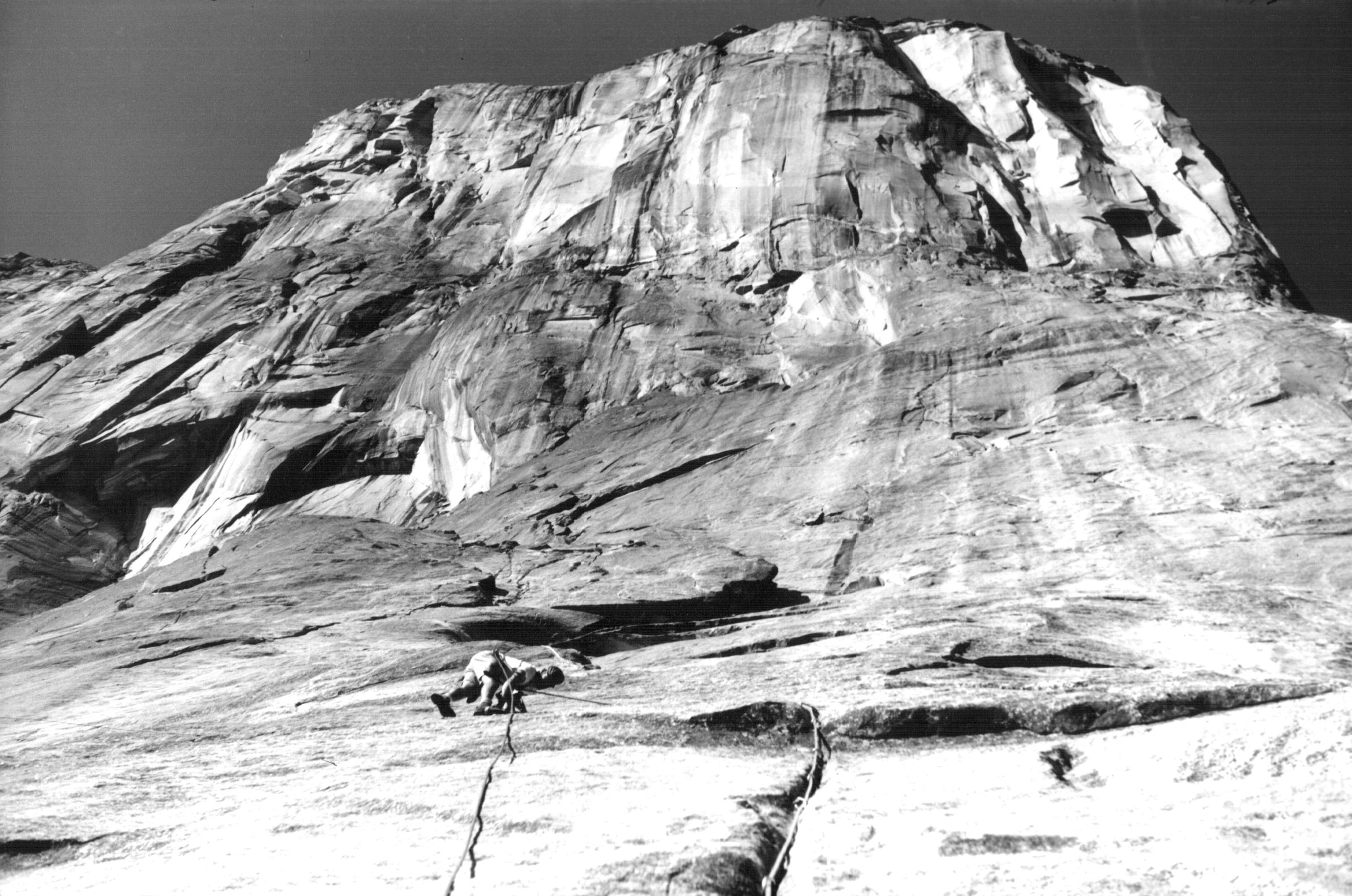 ROBBINS VENTURES UP onto a virgin El Cap, pitch 5, the Salathé Wall, El Capitan, Yosemite Valley, California. First ascent in 9½ days by Royal Robbins, Chuck Pratt, and Tom Frost, September 1961.